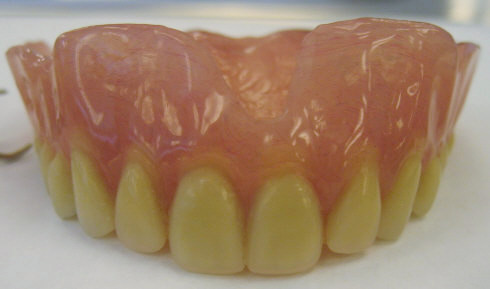 DRosenbach, English Wikipedia, took this picture of DRosenbach's patient's denture. Source: The free English Wikipedia picture Mr. M's Complete Denture1.JPG by DRosenbach, English Wikipedia. Created on 23:04, 3 July 2006.